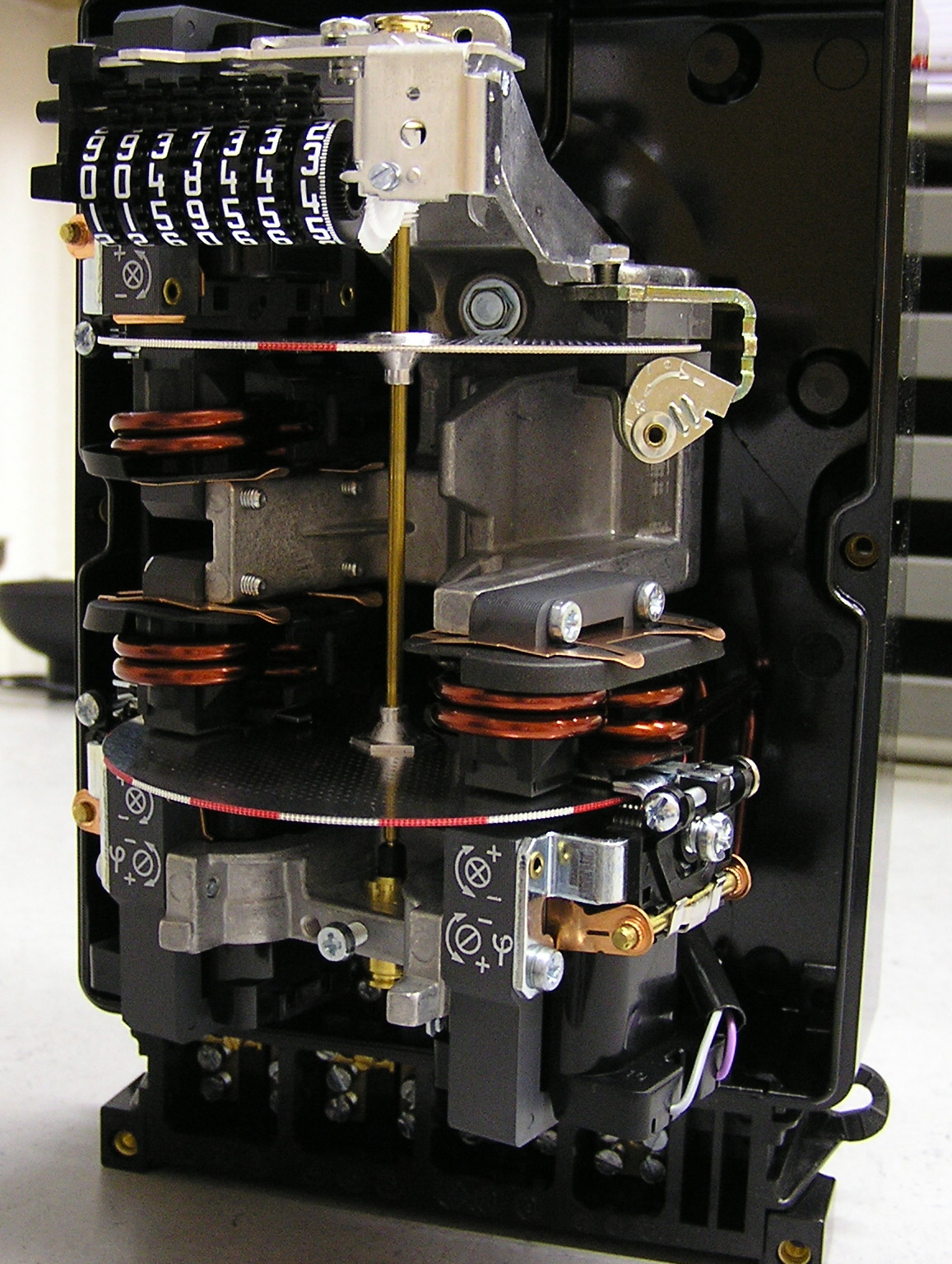 An electricity meter, opened